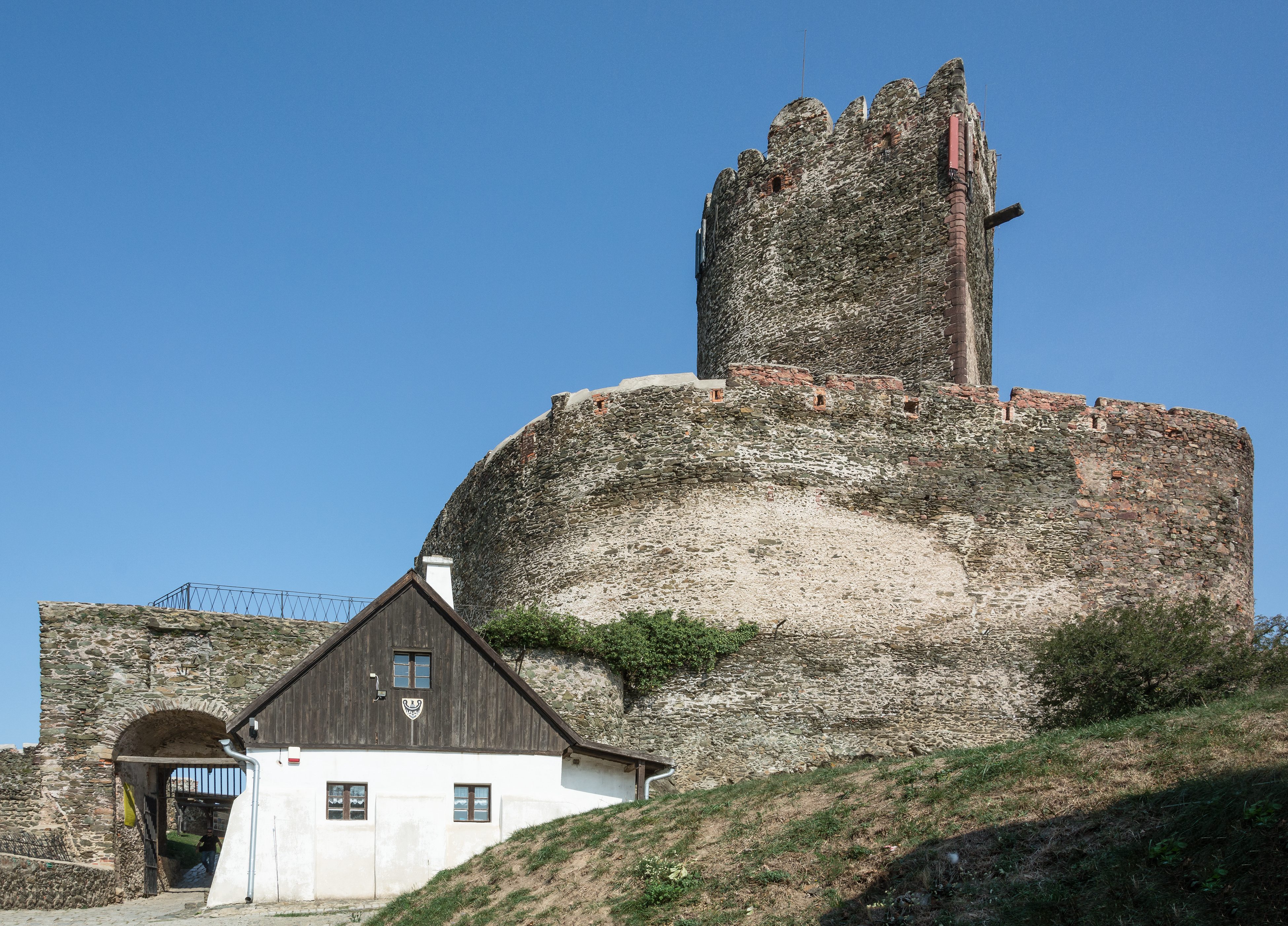 Bolków Castle Wikidata has entry Q891409 with data related to this item.